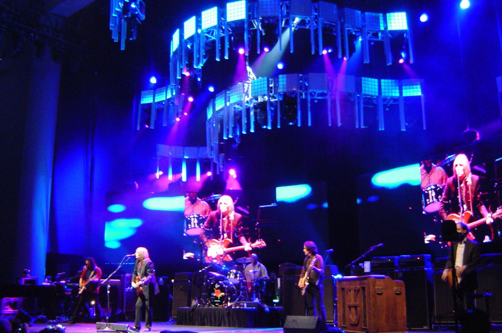 Tom Petty and the Heartbreakers performing live in Indianapolis June 23, 2006. Photo taken by Mudcrutch Stage setup as follows: Far left - (not visible) Benmont Tench - Keyboards/Piano Left - Mike Campbell - Lead Guitar Center - Tom Petty - Guitar/Vocals Rear Center - Steve Ferrone - Drums Right - Ron Blair - Bass Near Right - Scott Thurston - Harmonica/Guitar